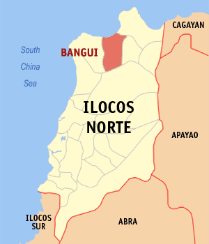 Map of Ilocos Norte showing the location of Bangui